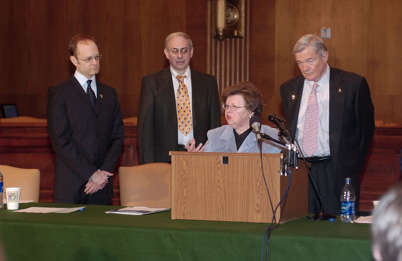 United States Senators Barbara Mikulski and Kit Bond with actor David Hyde Pierce at a conference to promote awareness of Alzheimer's Disease.